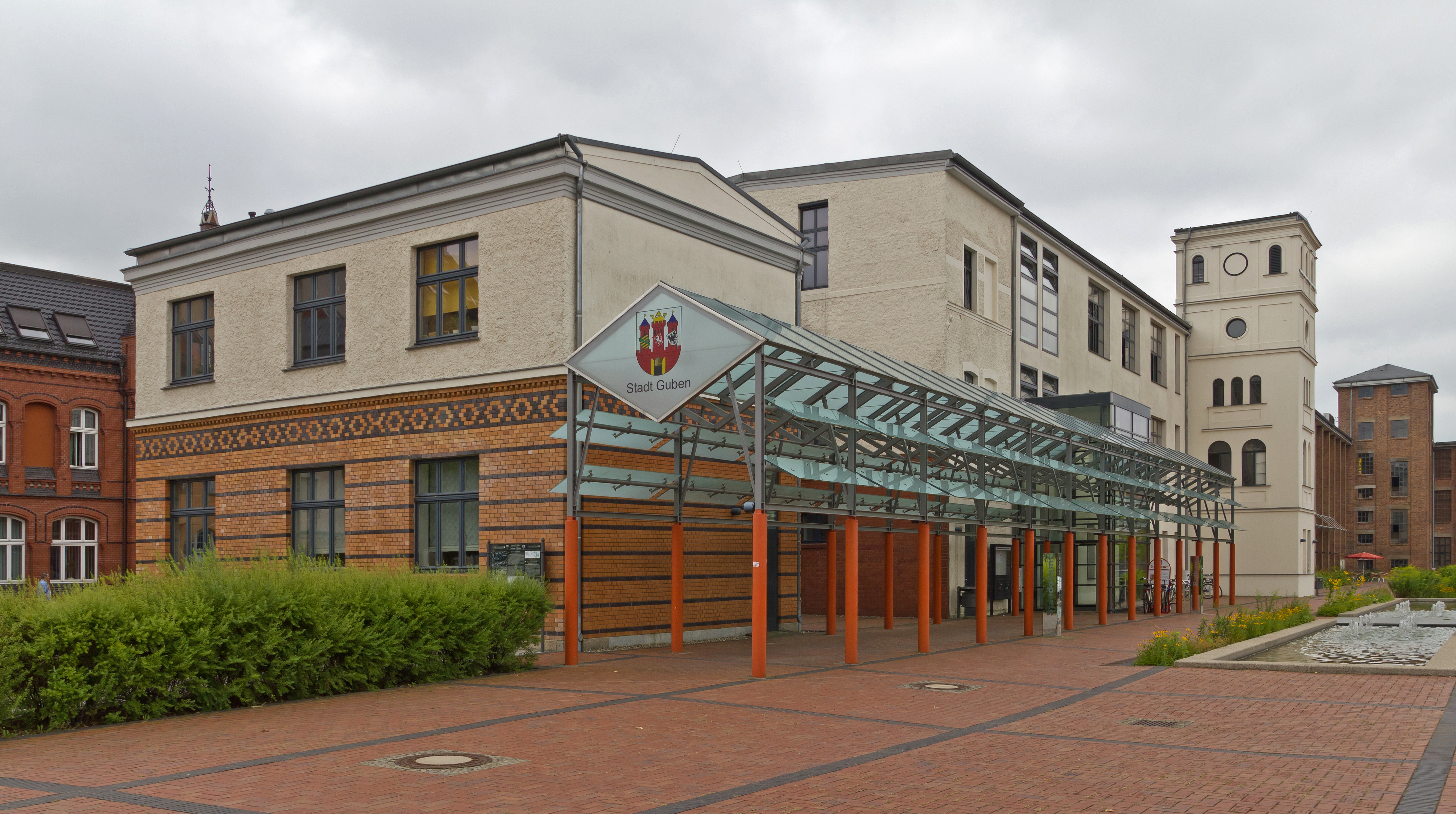 Town hall in Guben, Brandenburg, Germany